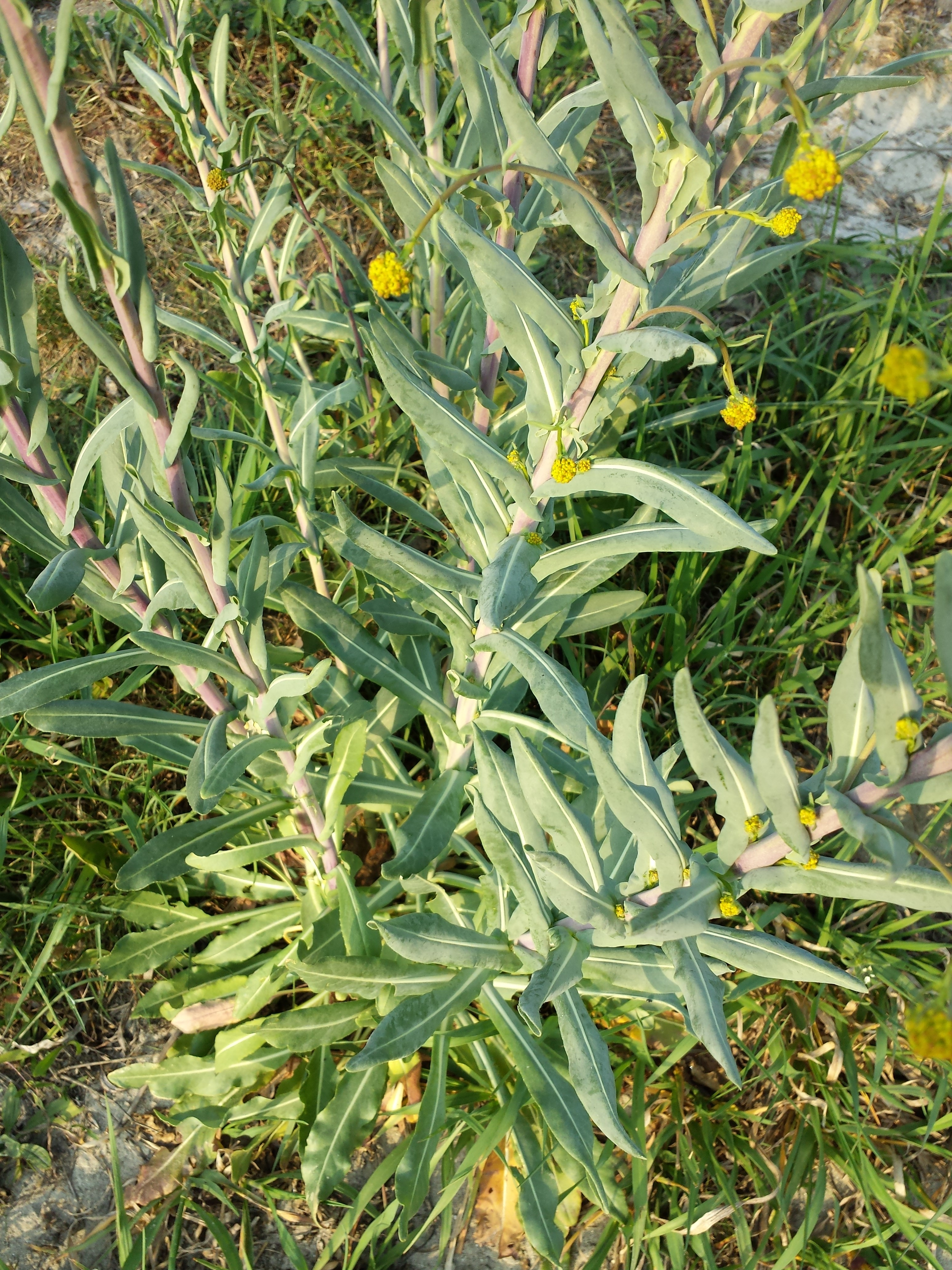 Stipes with leaves Taxon: Isatis tinctoria (s. str.) (sensu Fischer et al. EfÖLS 2008 ISBN 978-3-85474-187-9) Location: Neue Donau, Vienna-Floridsdorf - ca. 160 m a.s.l. Habitat: dry ruderal meadows